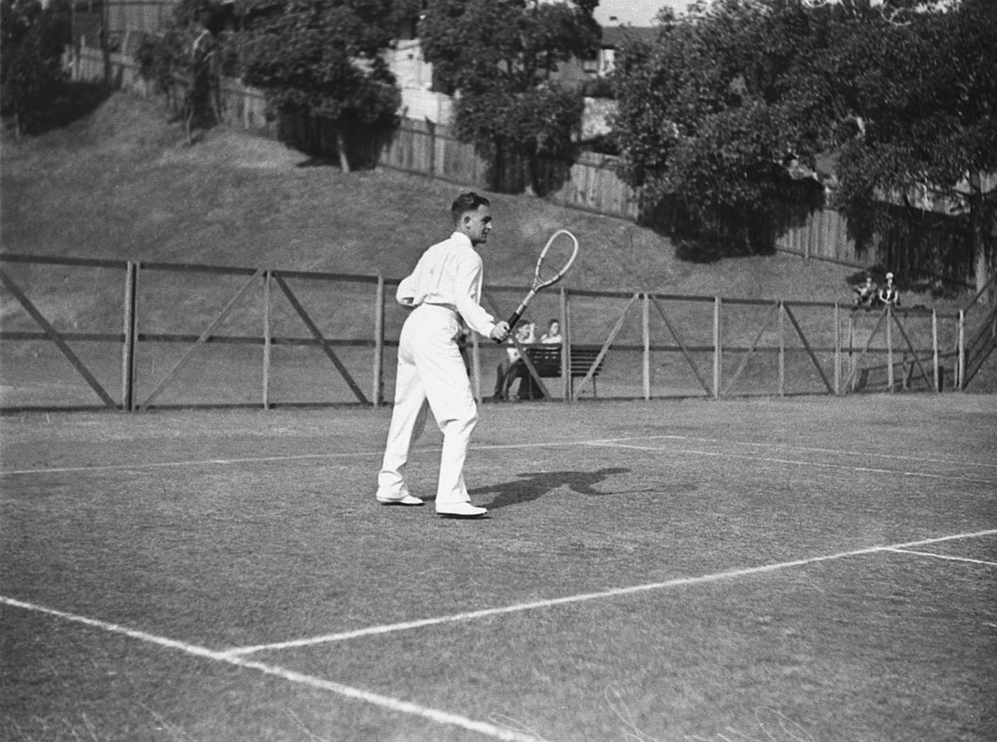 Australian tennis player Jack Crawford at White City in Sydney, Australia